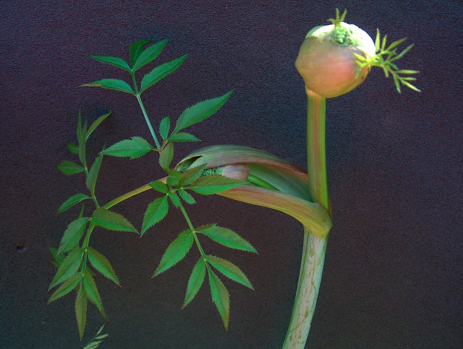 A leaf and flower bud of Wild Angelica or Woodland Angelica (Angelica sylvestris) in Kerava, Finland